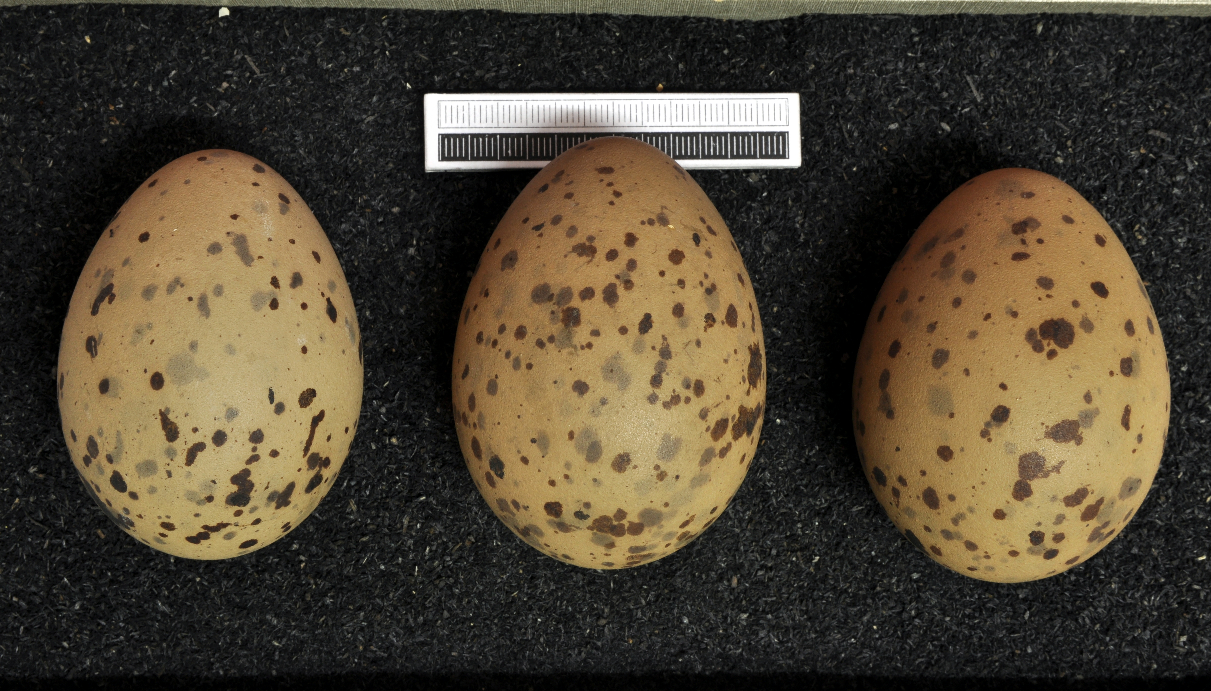 European herring gull Larus argentatus , egg, Coll. Museum Wiesbaden